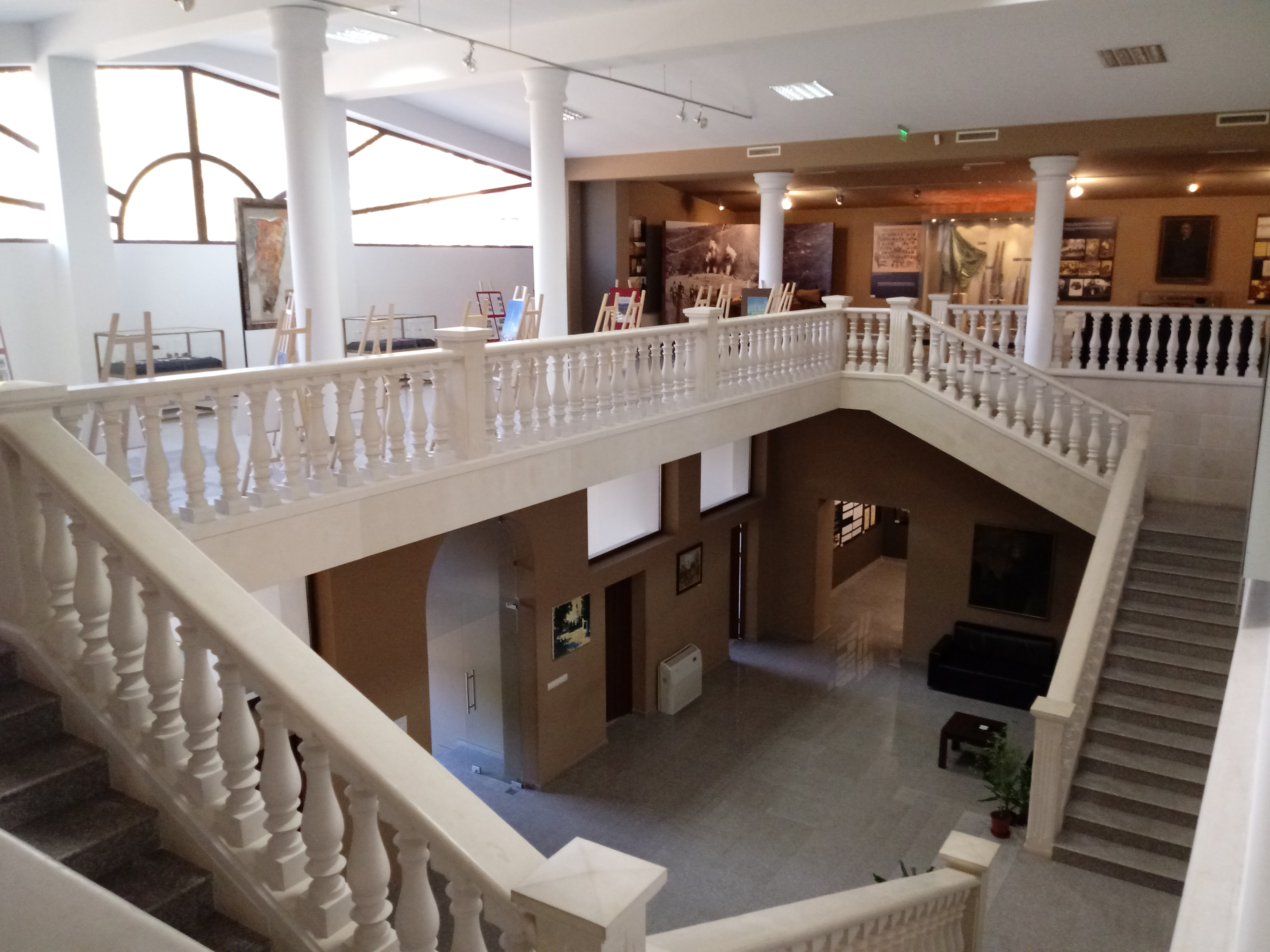 This photo/audio/video was uploaded during the creation of the first wikitown in Bulgaria – WikiBotevgrad. All files are uploaded by their authors or their permission. The cooperation is between Wikimedians of Bulgaria User Group, Municipality Botevgrad, Historical Museum - Botevgrad and Ivan Vazov Library in Botevgrad.